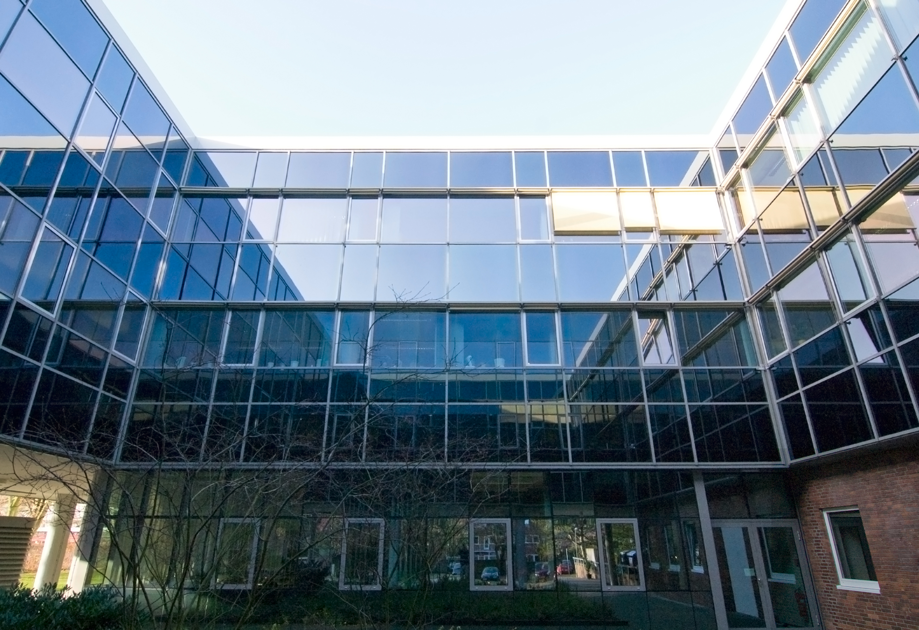 Institute for Social Sciences Kiel, where the ISPK is settled.